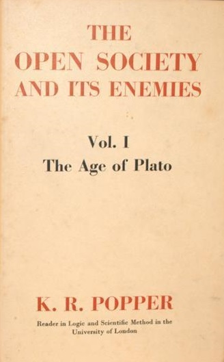 Cover for The Open Society and Its Enemies